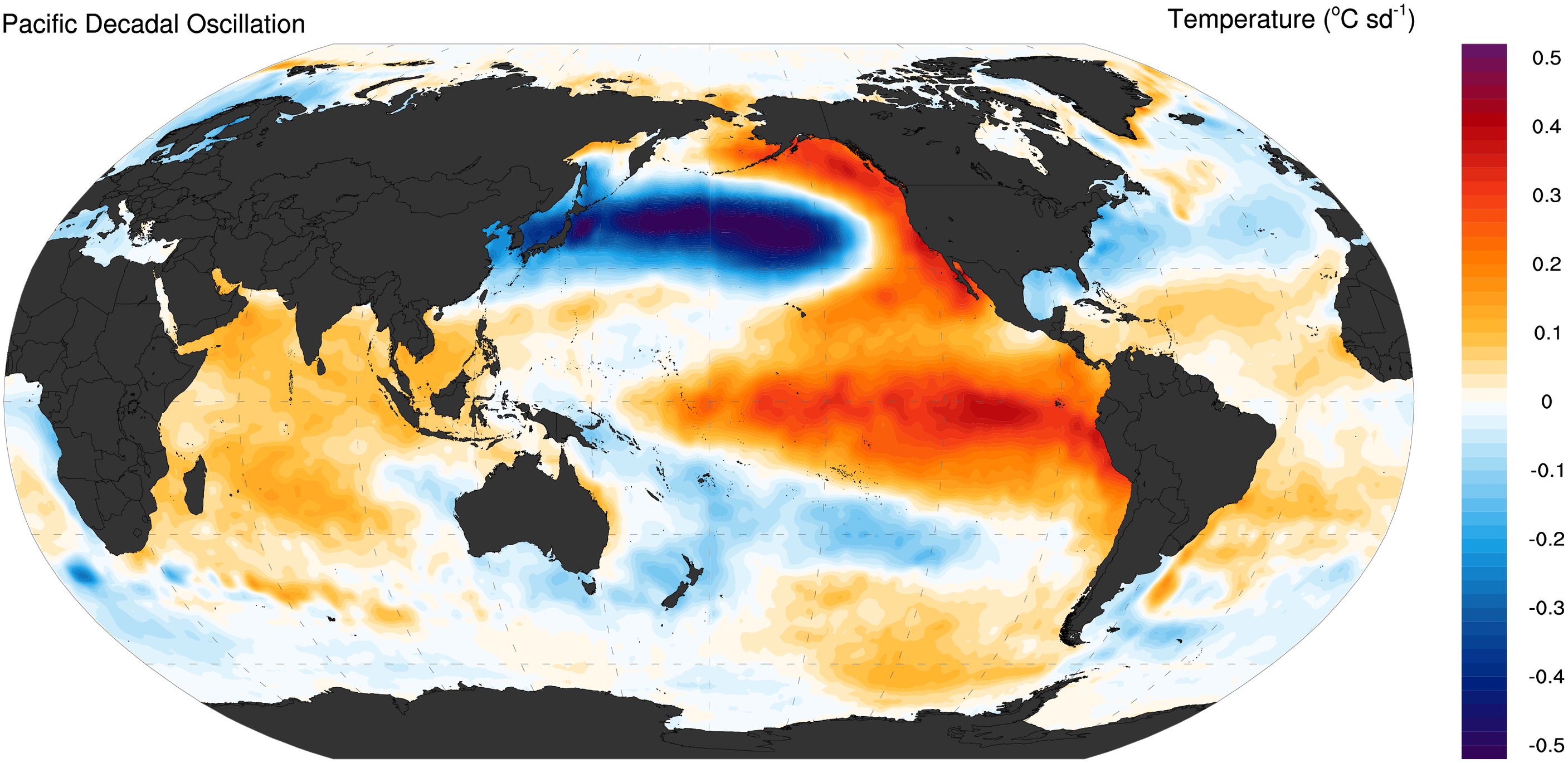 PDO global pattern. The PDO is the leading EOF[1] of monthly sea surface temperature anomalies over the North Pacific after the global mean sea surface temperature anomaly is removed. The global pattern is computed as the regression of monthly sea surface anomalies on the principal component time-series. The units are °C per standard deviation of the pdo index. Ref: Data source, HadISST (1880-2010)